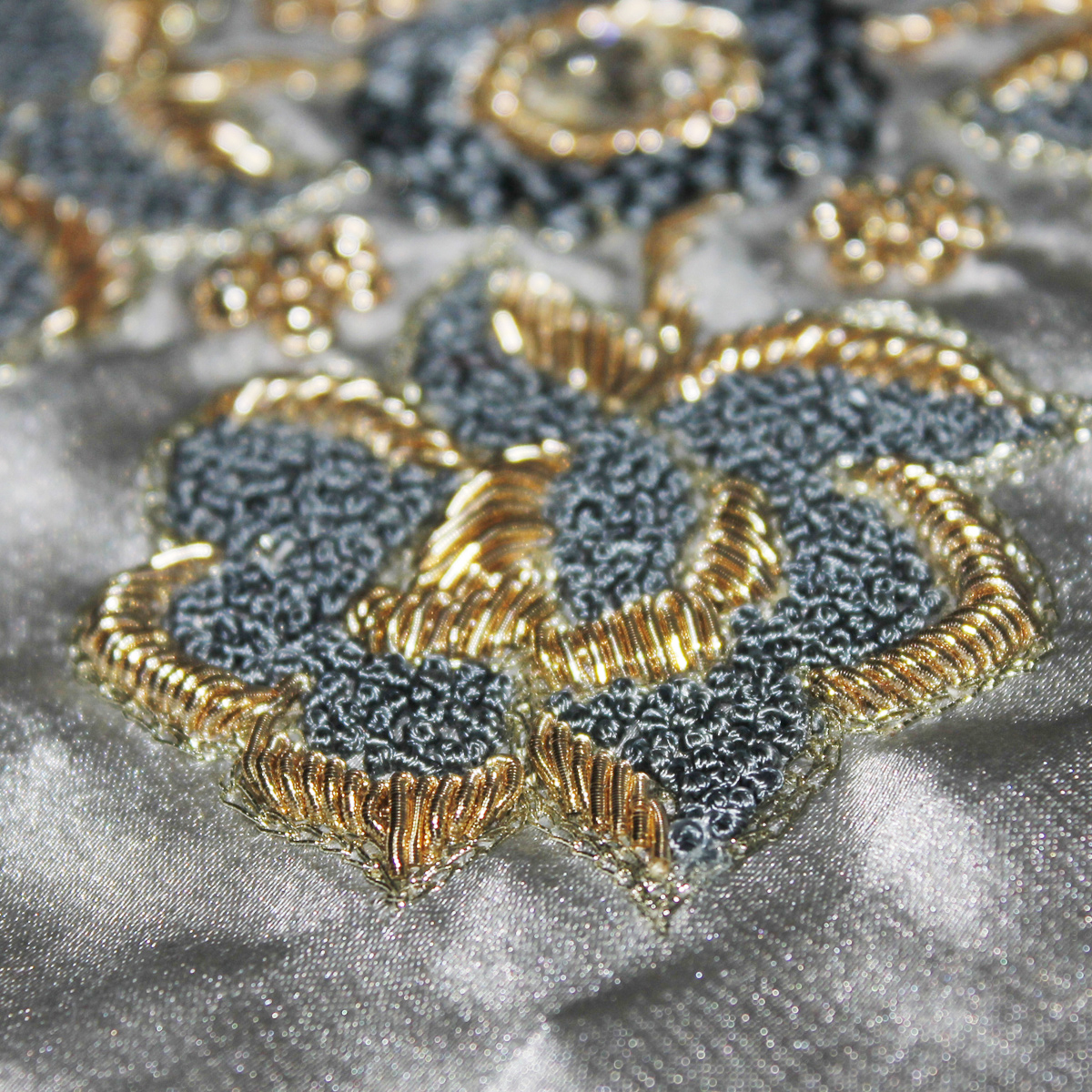 Zardozi Embroidery Art Form is very popular in India and Middle East. The use of golden wires and delicate embroidery can be seen.